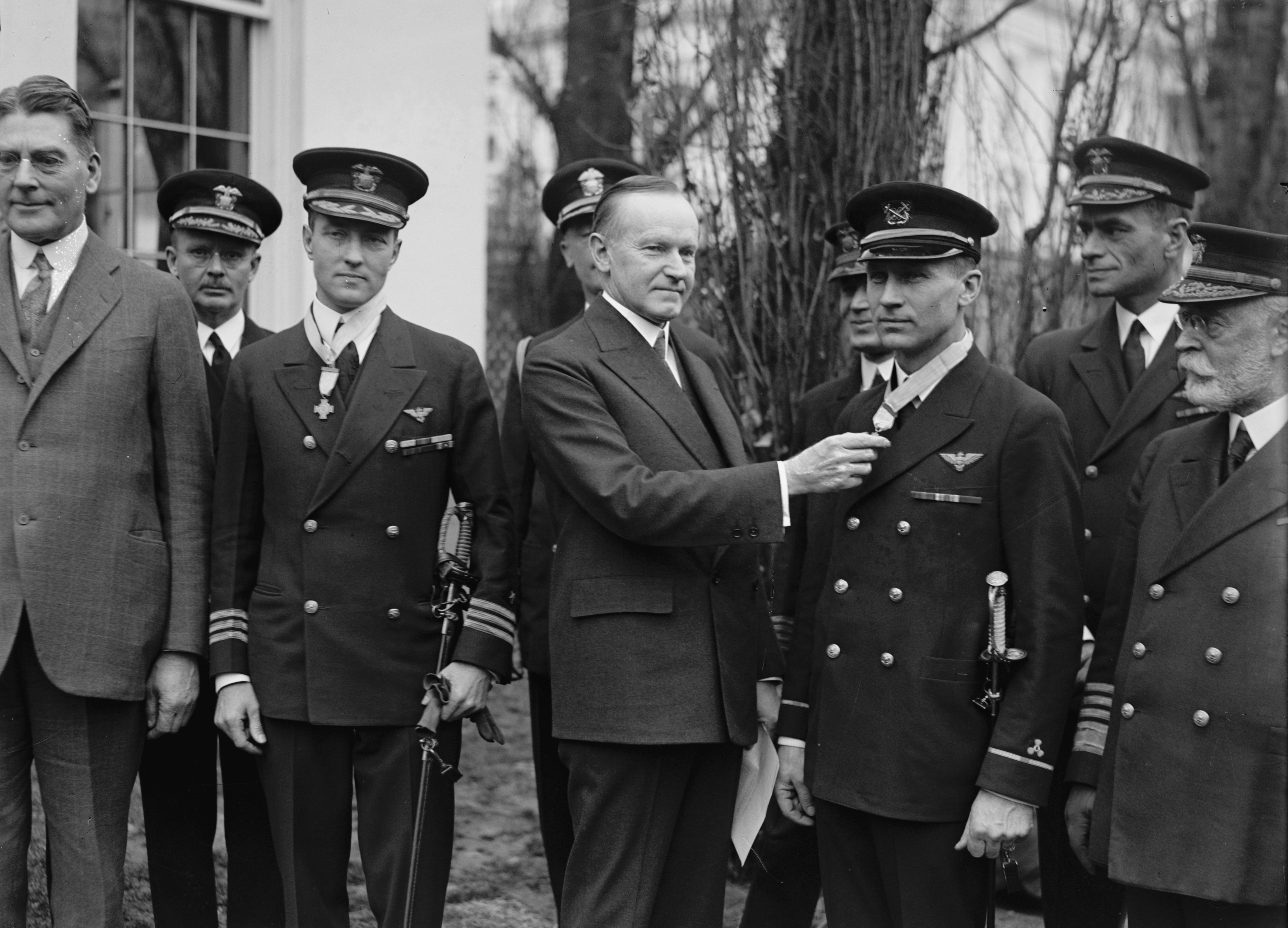 The U.S. President Calvin Coolidge awarding the Medal of Honor to Warrant Officer Floyd Bennett (right) and Commander Richard E. Byrd (left) for the first flight over the North Pole on 9 May 1926.